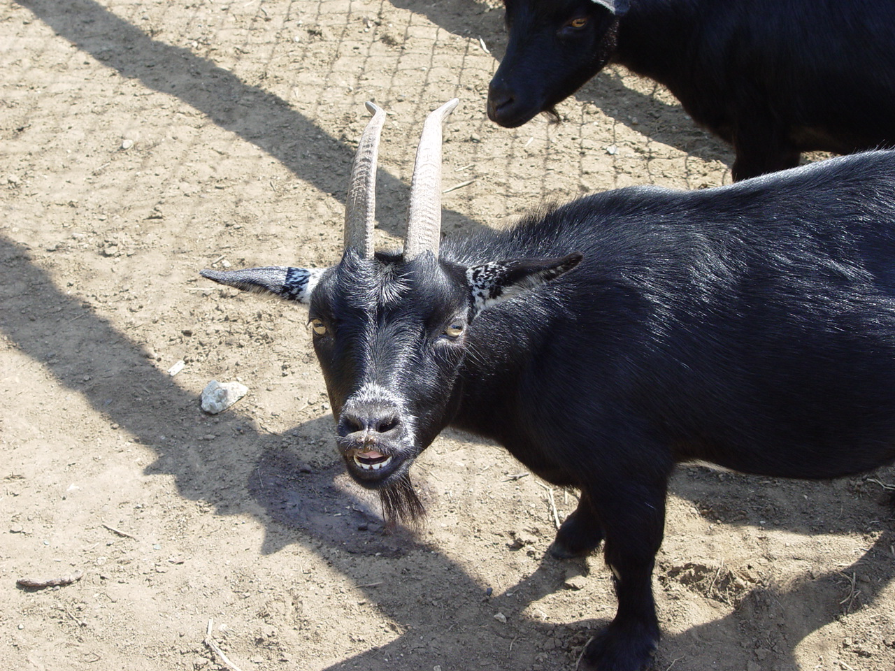 A goat in Yumká Zoo in Villahermosa, Tabasco Mexico